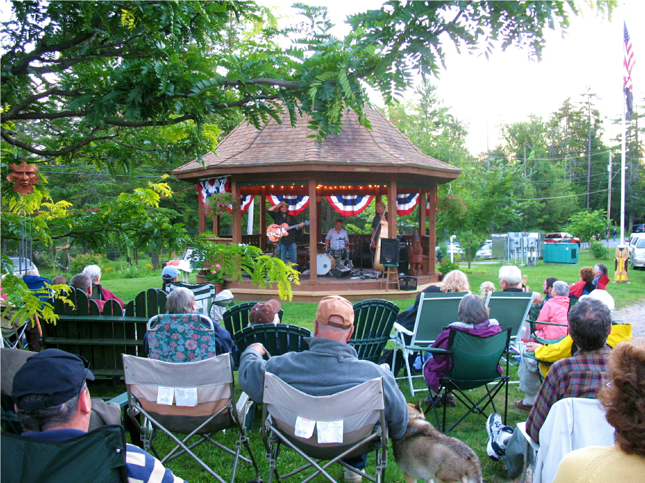 Folks in Lawn chairs enjoying a summer evening concert on the Wanakena Green (a.k.a. Z-Park)